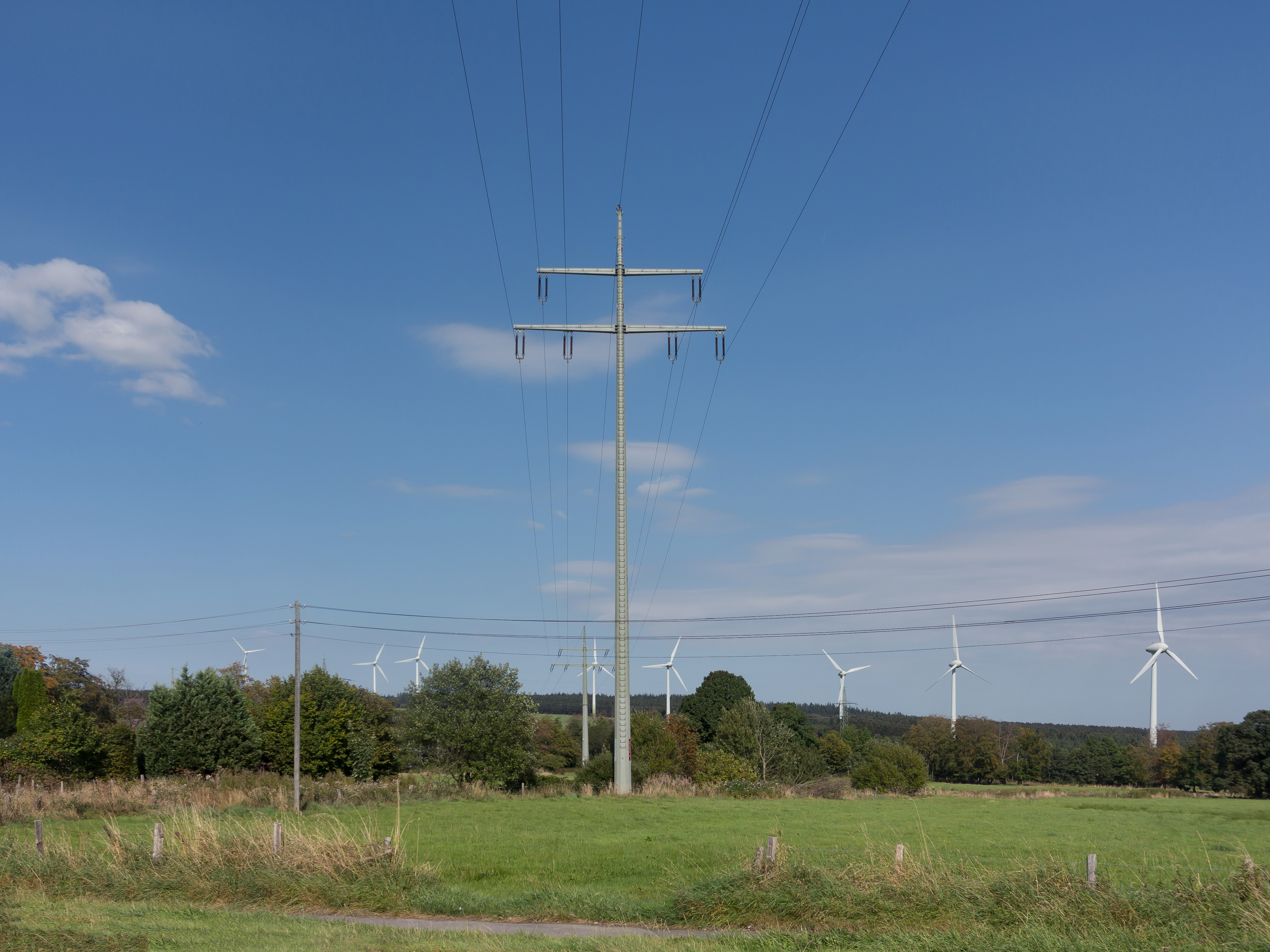 near Lammersdorf, panorama with transmission tower and modern windmills